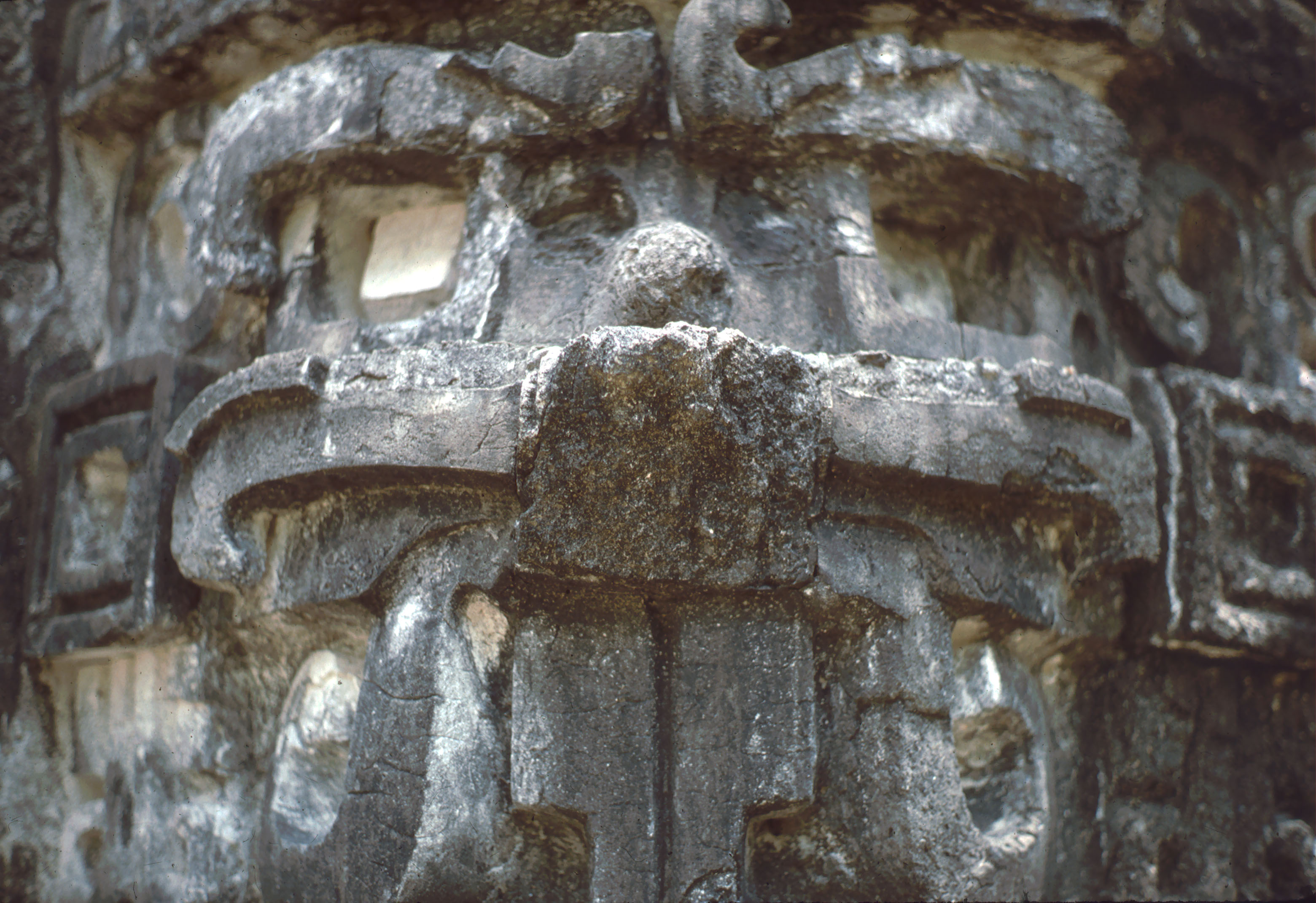 Chunlimón, Campeche, Mexico: Chac mask.